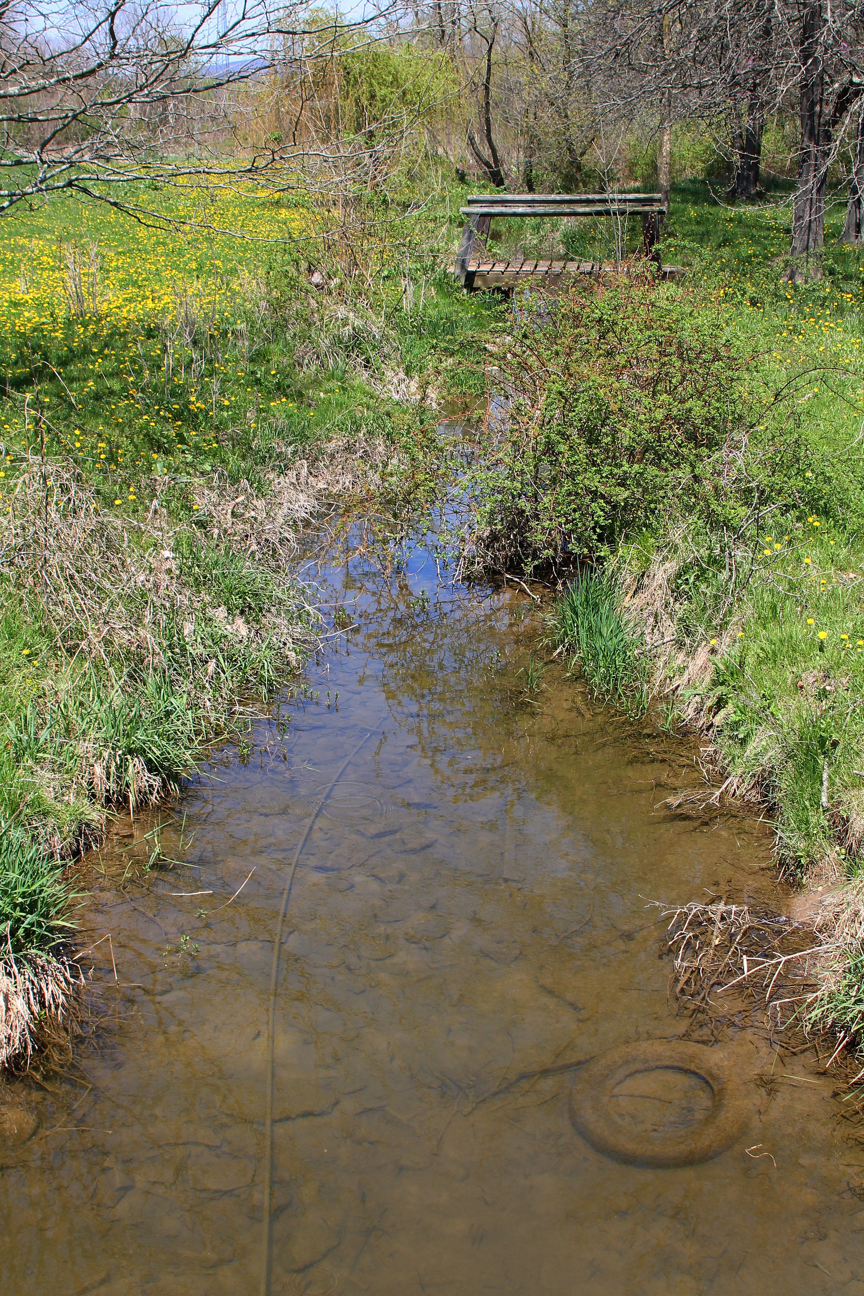 Dry Run, a tributary of the West Branch Susquehanna River in Northumberland County, Pennsylvania, looking downstream.